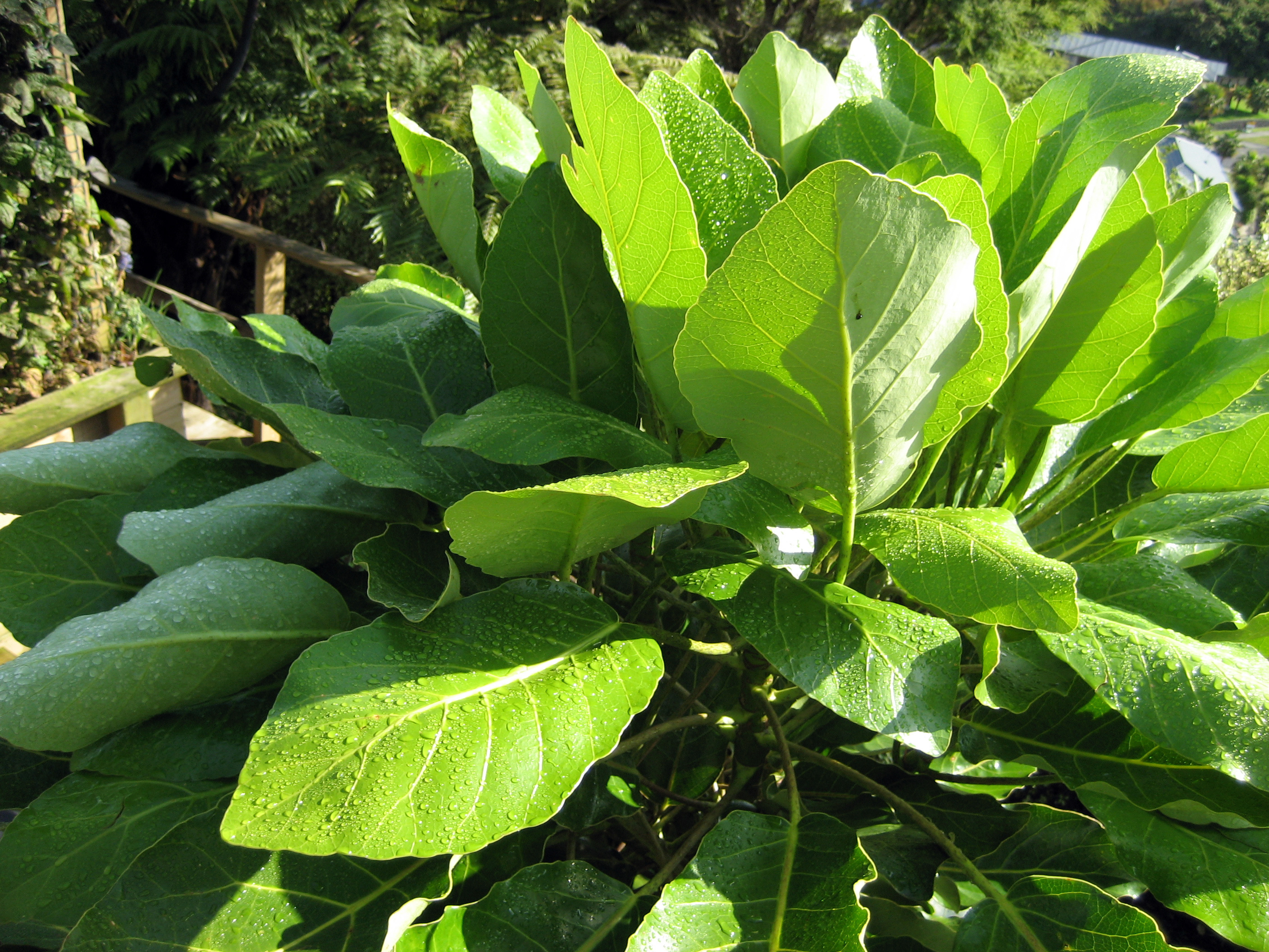 Puka tree (Meryta sinclairii), foliage of a young specimen growing in cultivation at Whakatāne, Bay of Plenty, New Zealand